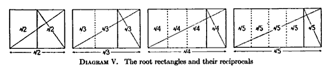 Root-N rectangles divide into N of the same shape, as shown in this figure